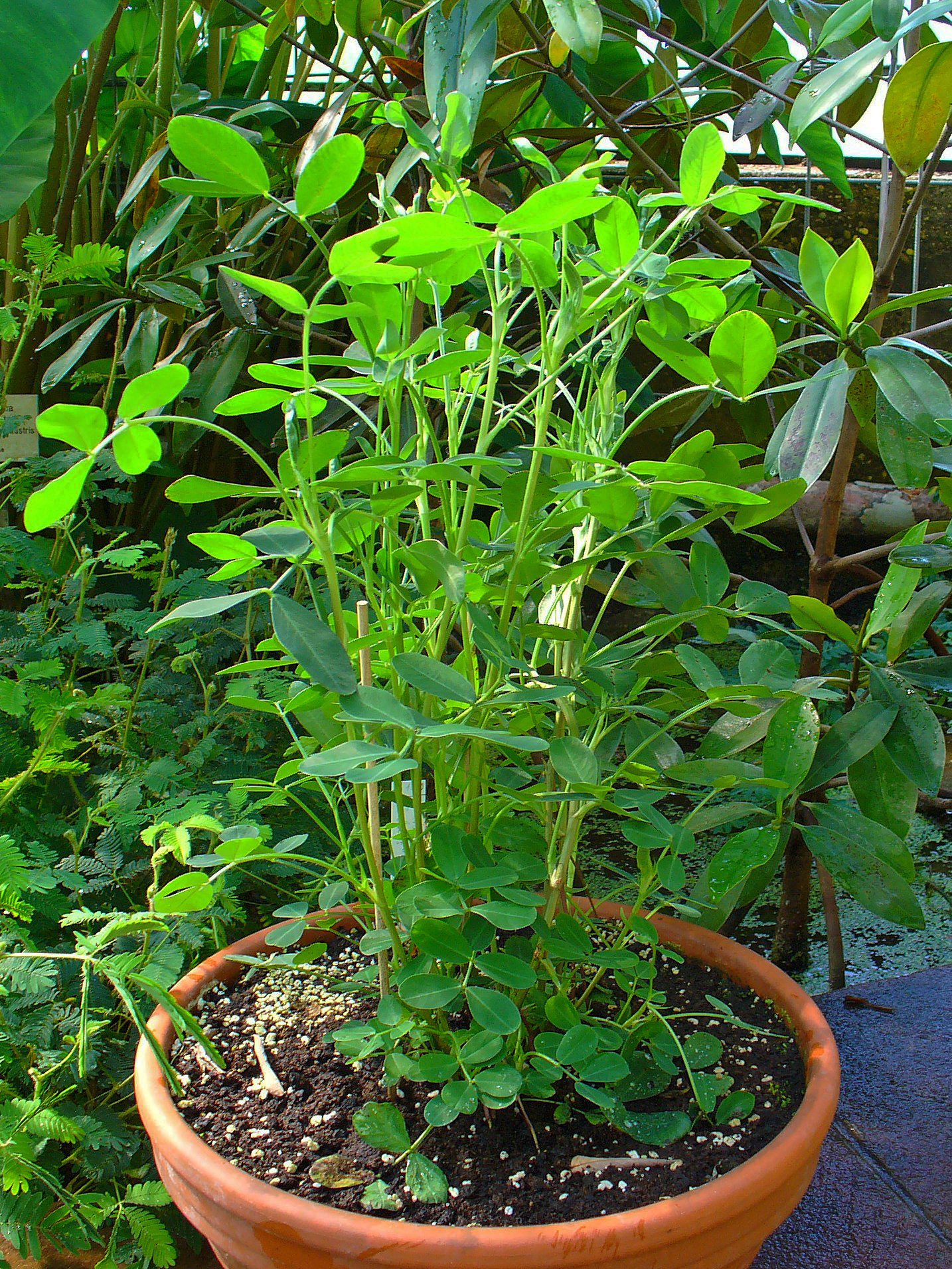 Arachis hypogaea, Fabaceae, Peanut, Groundnut, habitus; Botanical Garden KIT, Karlsruhe, Germany. The dried fruits are used in homeopathy as remedy: Arachis hypogaea (Ara-h.)